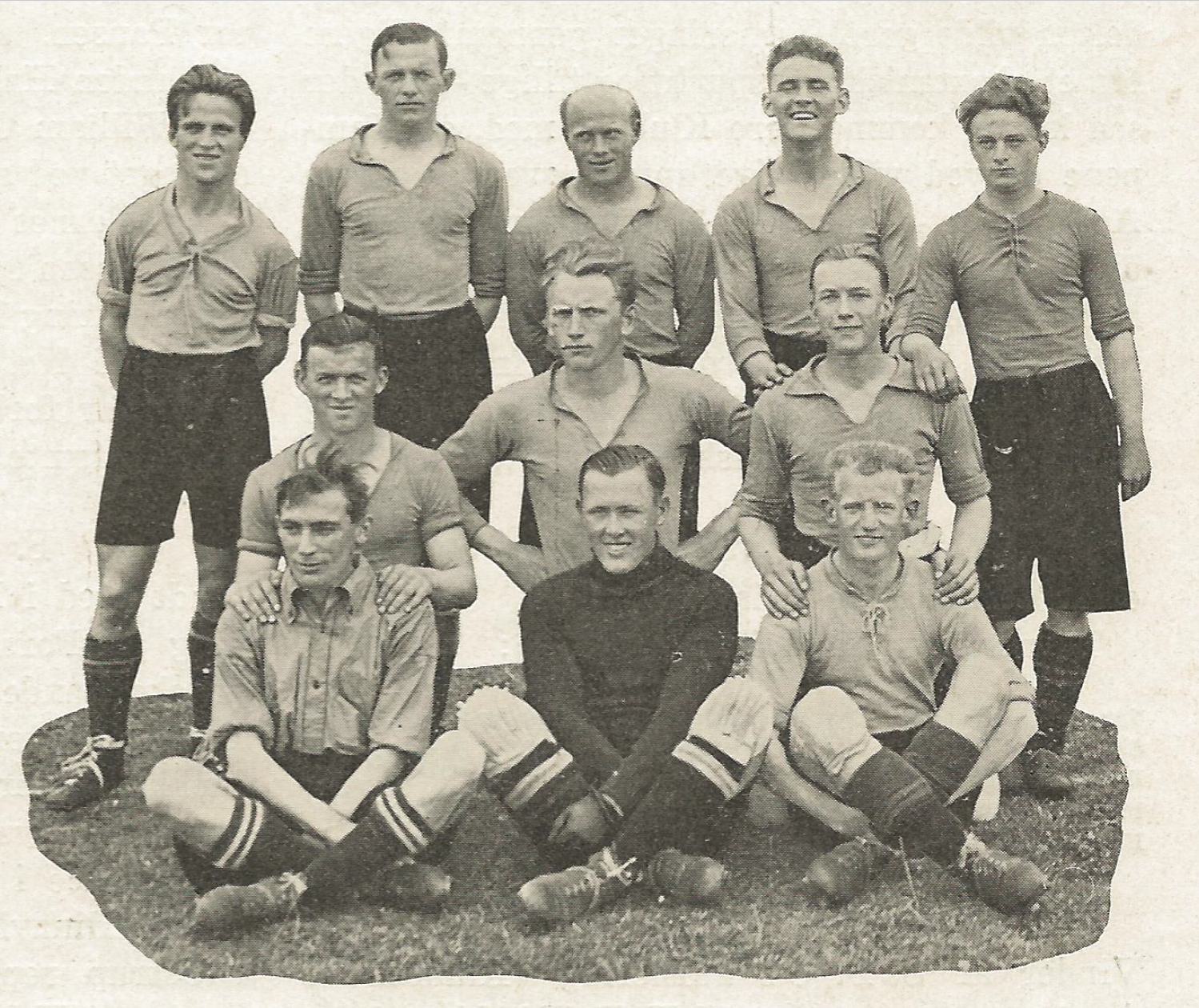 Regular team line-up of Skovshoved IF — Group photo of the team participating in 1926/27-season of Landsfodboldturneringen (Danish Football Association), in 1927.